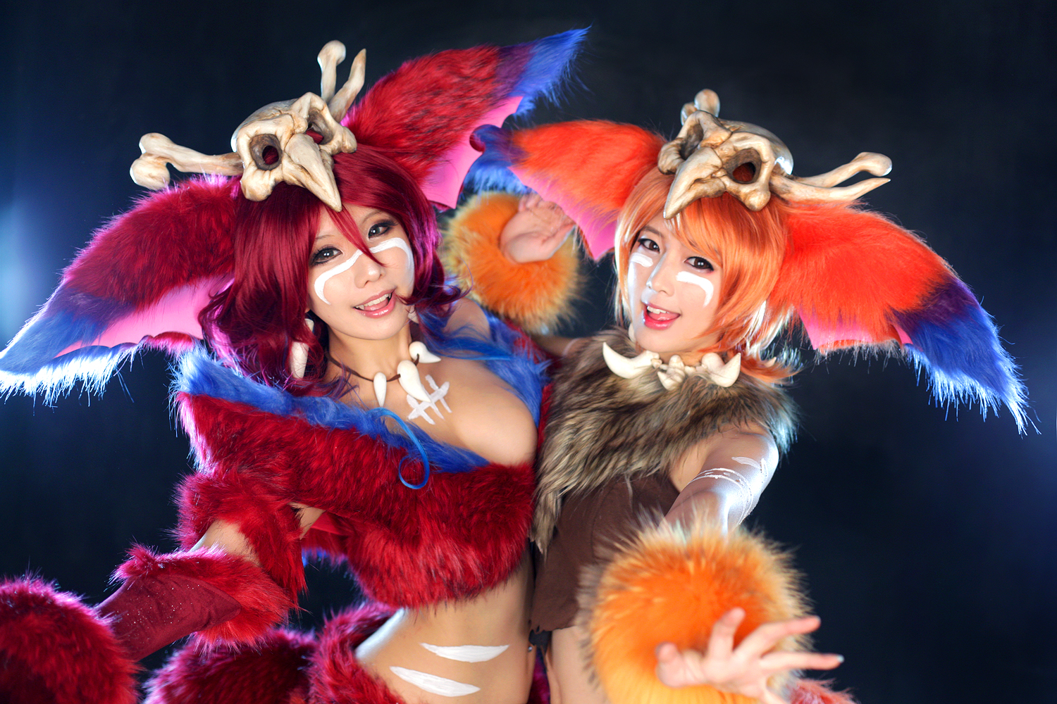 SpiralCats cosplay